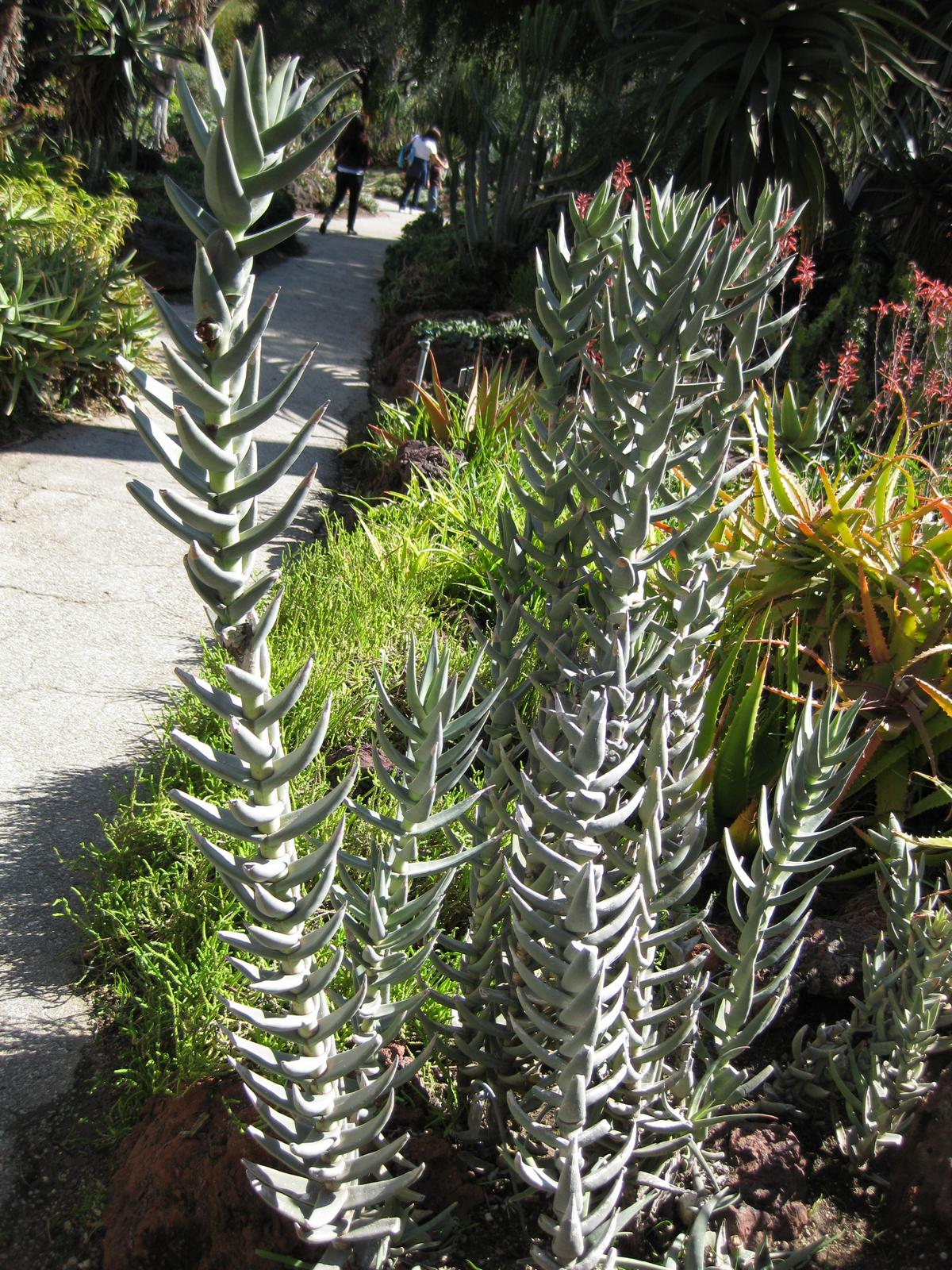 Photographed at Huntington Gardens (Los Angeles, California) in March